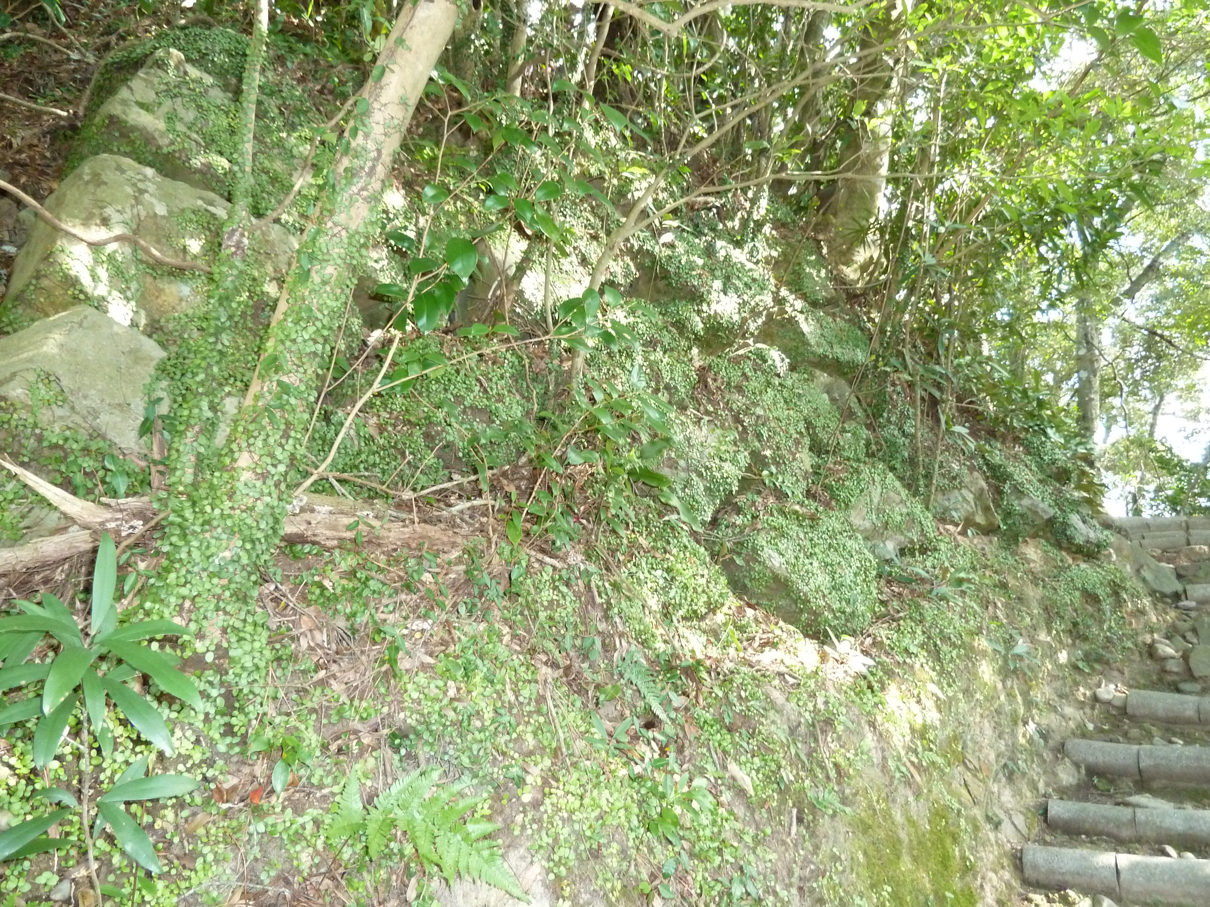 宿毛城の石垣